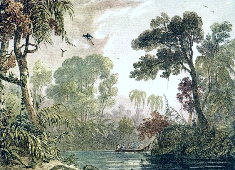 Mouth of river Cachoeira